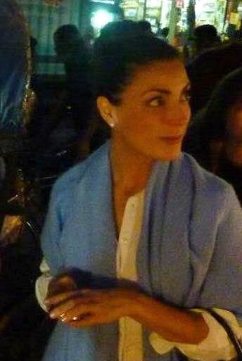 Bangladesh